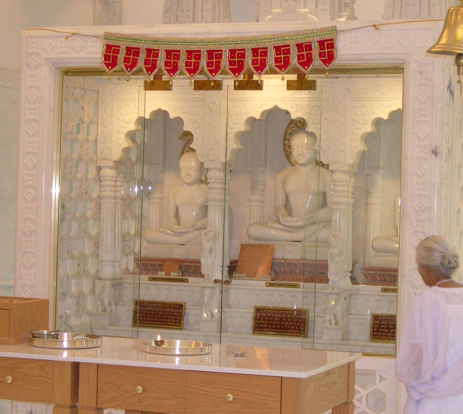 Shrine in New York City Jain temple on third floor with images of Tirthankaras.